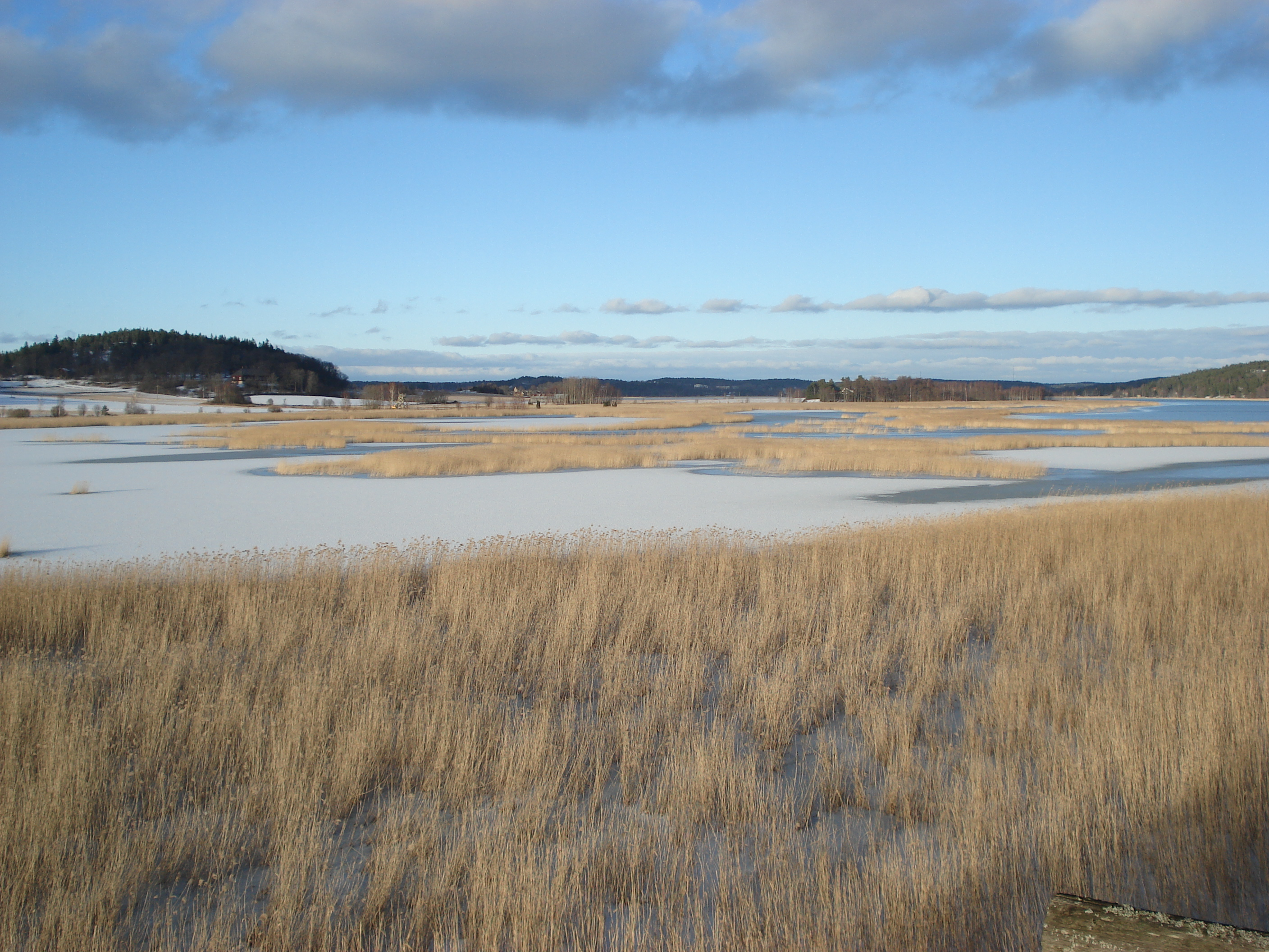 Kuusistonlahti at Kaarina, Finland.